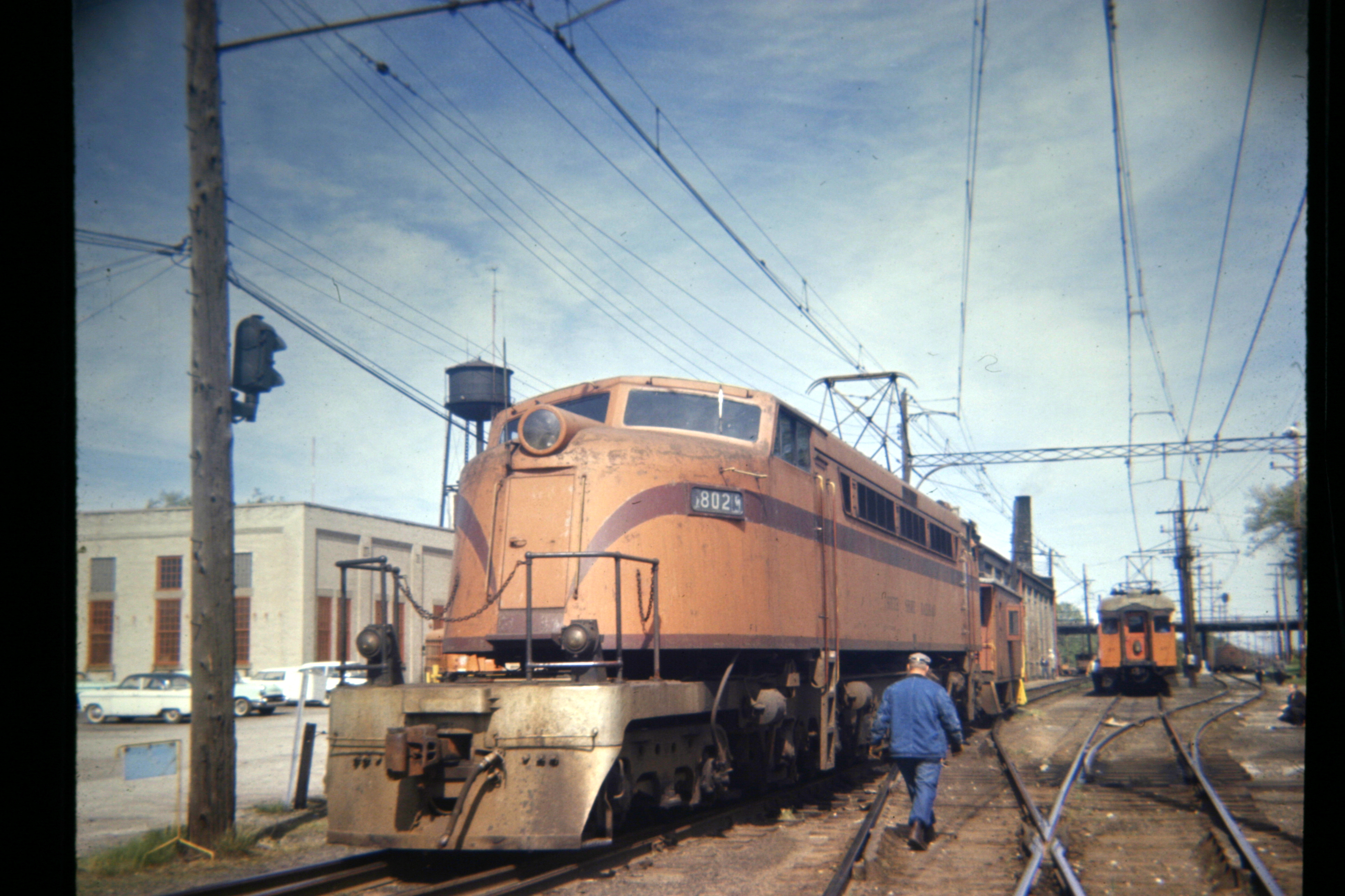 A South Shore Line engine at Michigan City Shops in 1966.